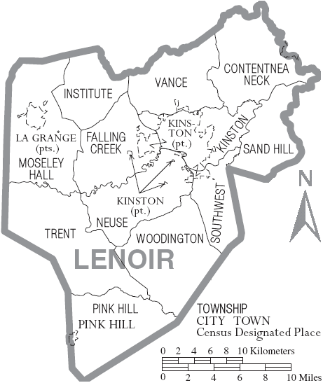 Map of Lenoir County, North Carolina, United States with township and municipal boundaries